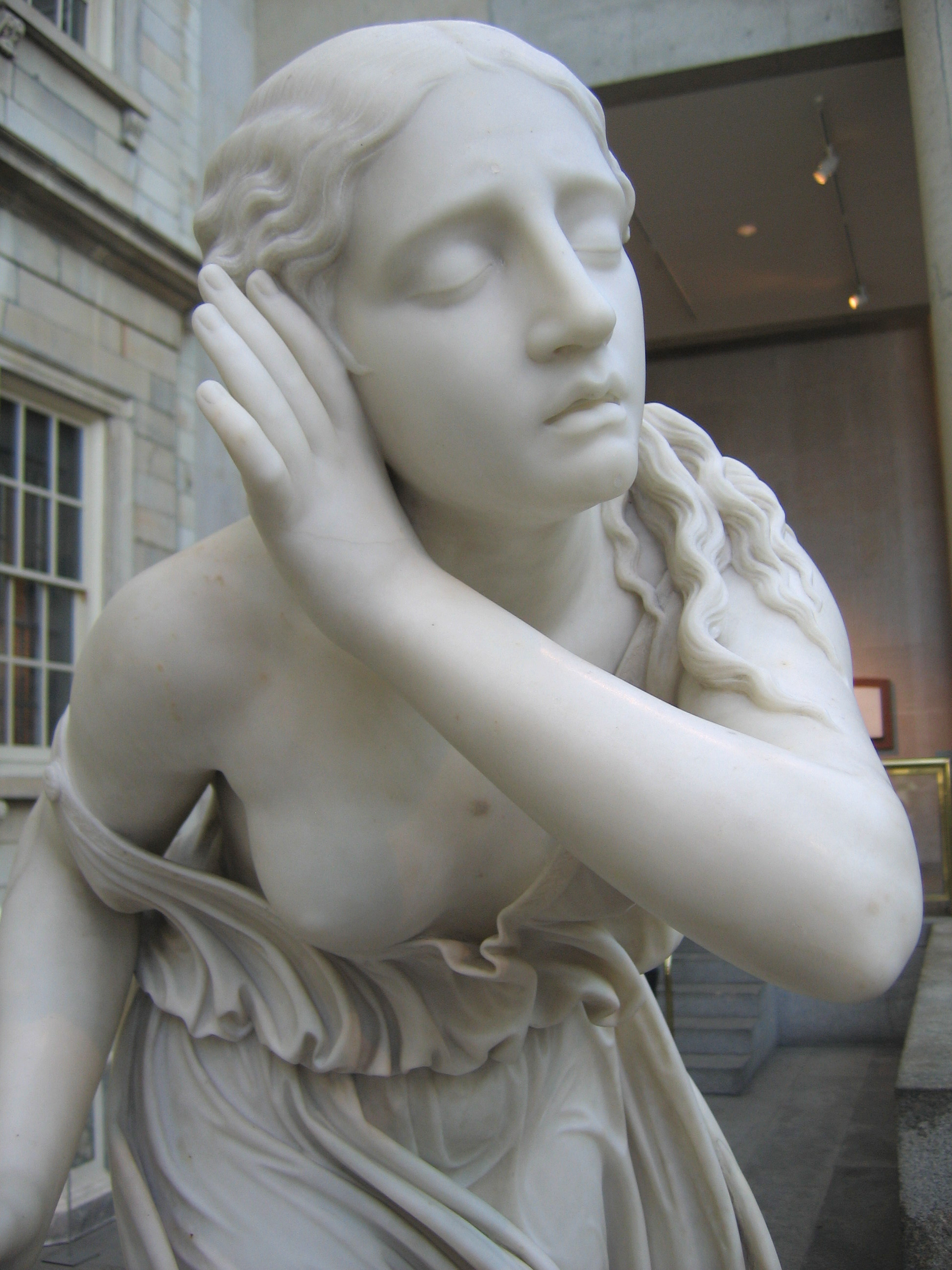 Nydia, the Blind Flower Girl of Pompeii (detail), ca. 1853-54; this replica, 1859. Randolph Rogers (1825 - 1892). Marble. Metropolitan Museum of Art, New York City.